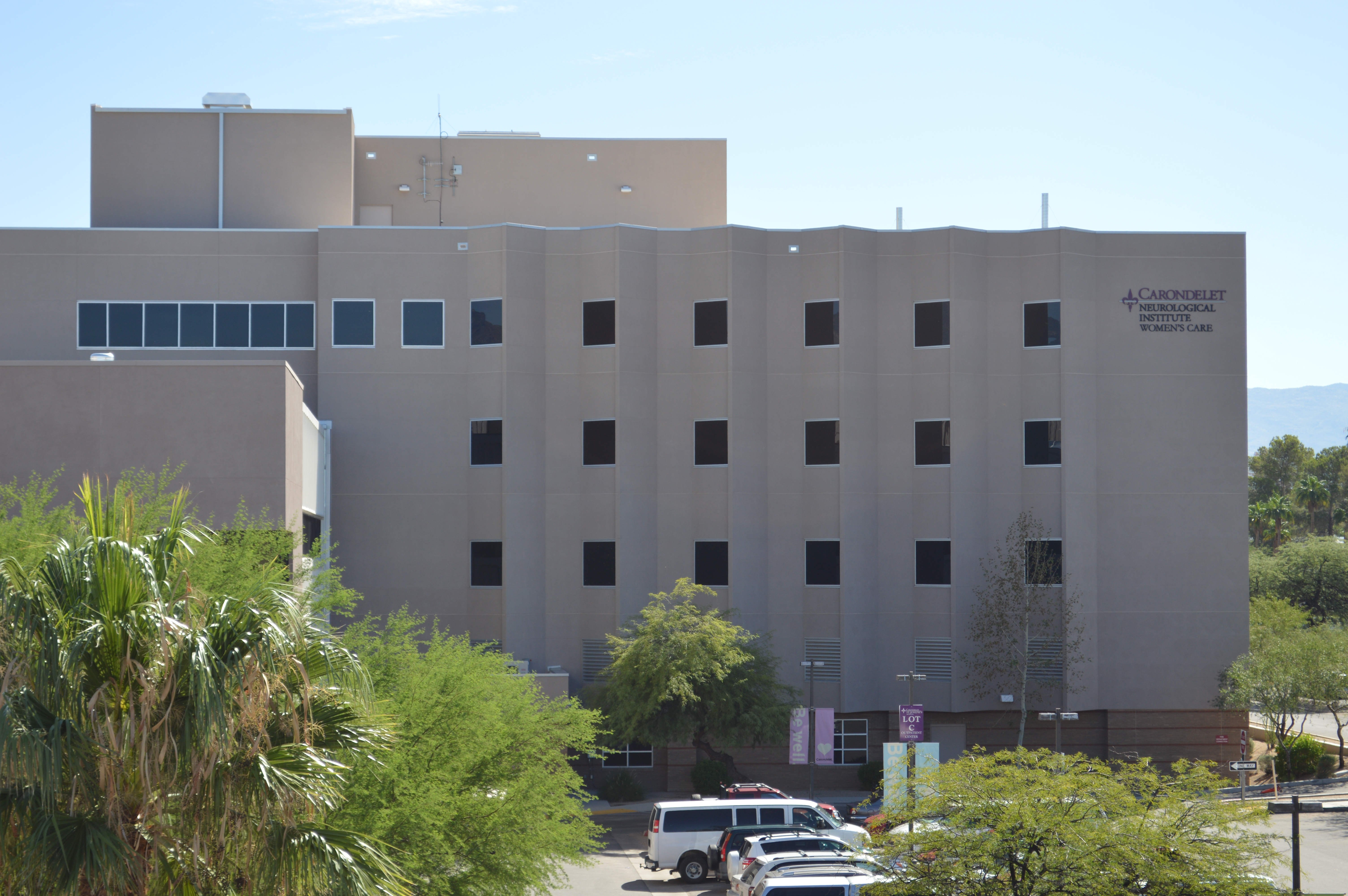 The Carondelet Neurological Institute/Women's Care center, at St. Joseph's Medical Center in Tucson, Arizona. Picture taken from the top of the neighboring parking garage.